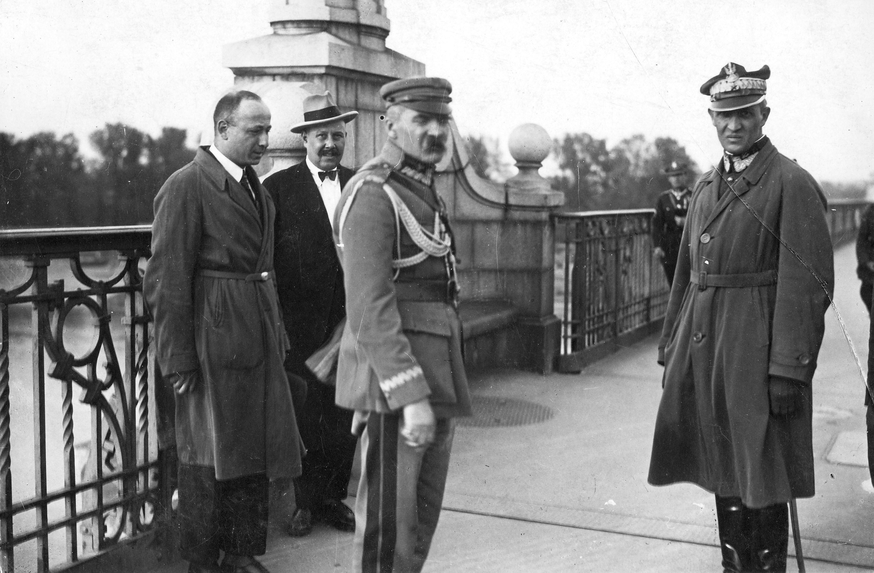 Marshall Józef Piłsudski (center) with general Gustaw Orlicz-Dreszer (to the right) on Poniatowski Bridge in Warsaw, just before negotiations with President Stanisław Wojciechowsk during The May Coup d' Etat on May 12, 1926.